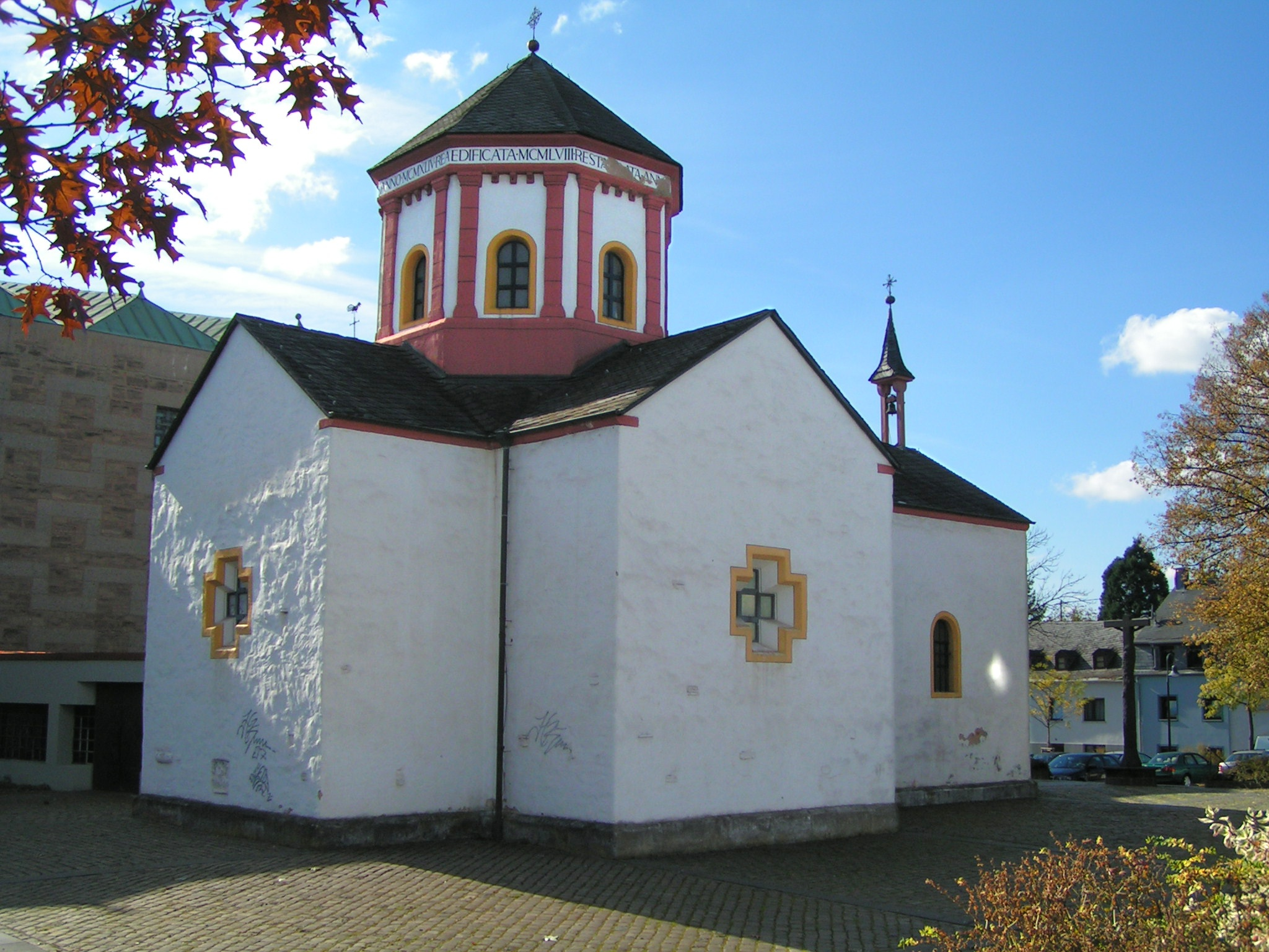 Kapelle Heiligkreuz, Trier, Germany